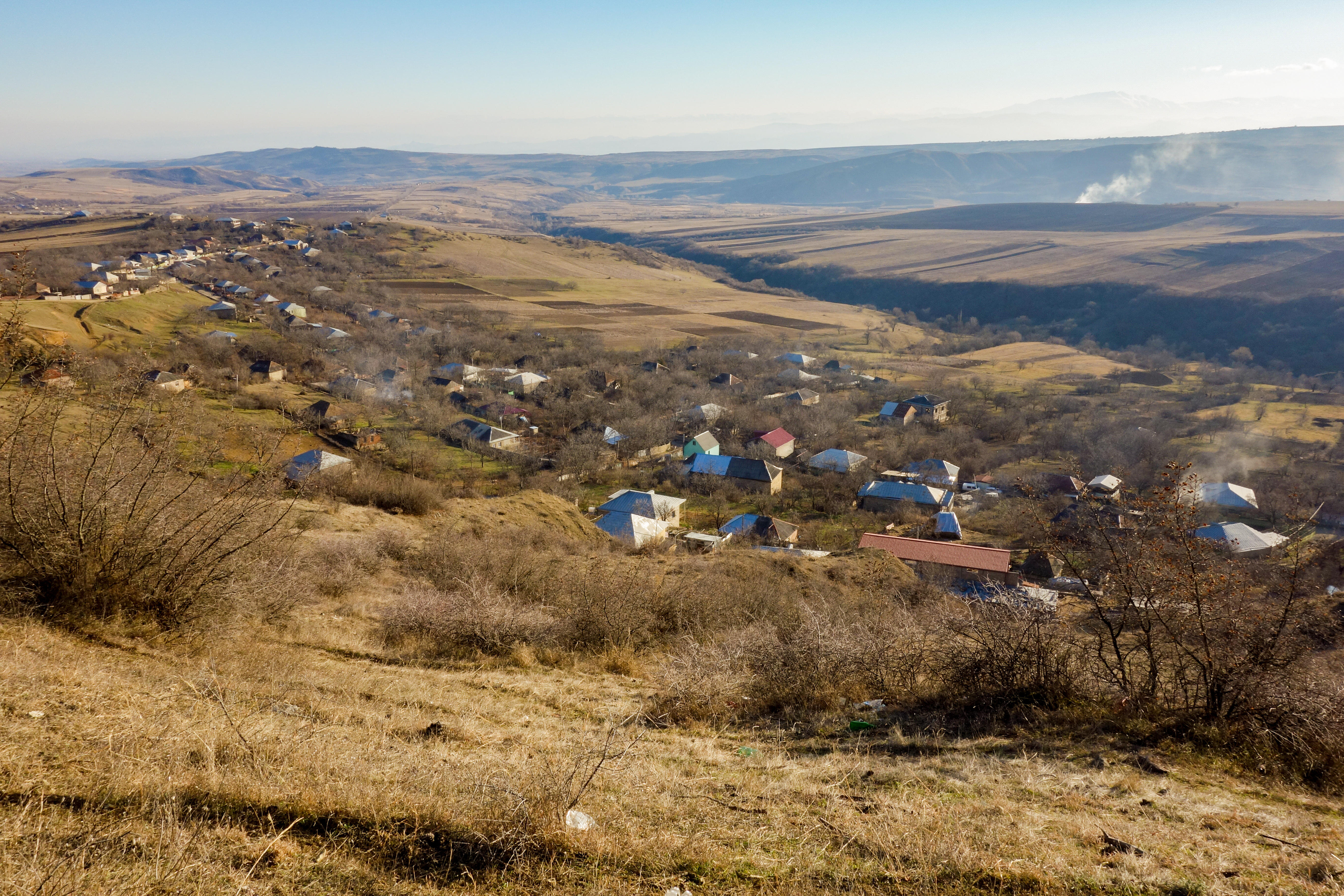 Enageti village (view from the cemetery), Kvemo Kartli, Georgia